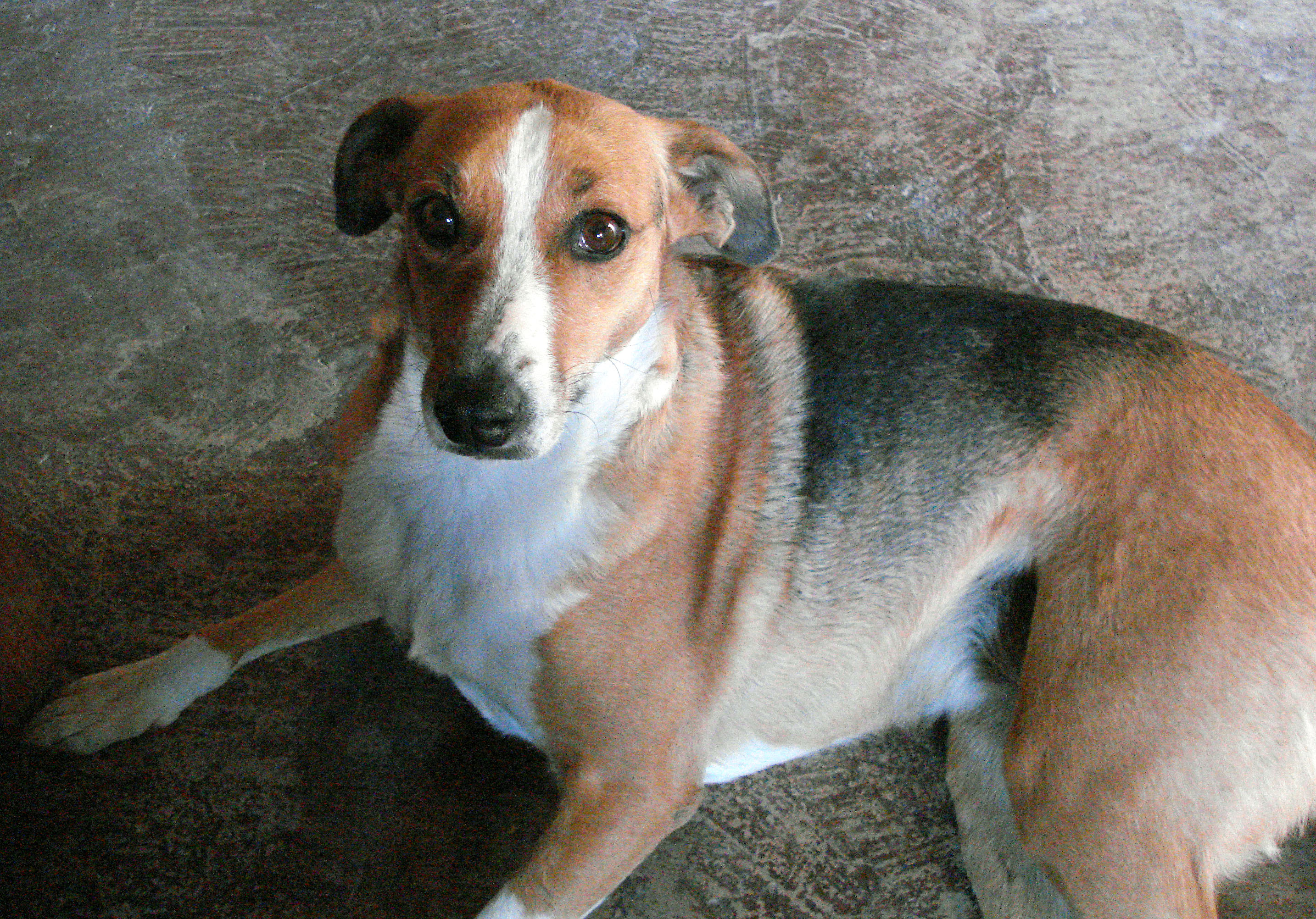 Canis Africanis photographed nearby Graaff-reinet